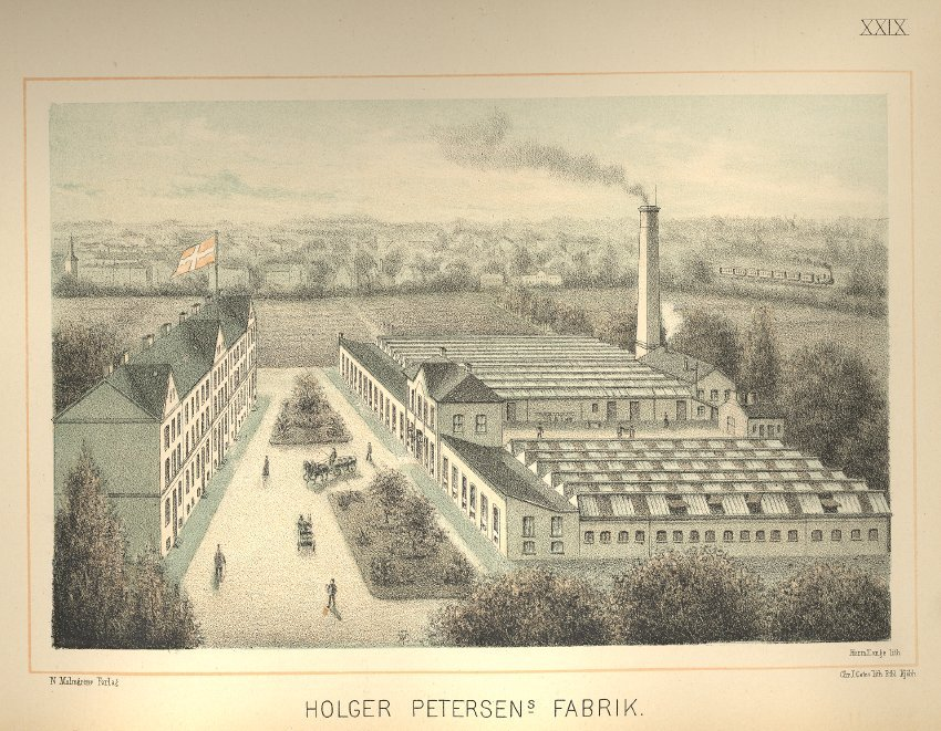 Holger Petersens Fabrik on Tagensvej in Copenhagen, Denmark